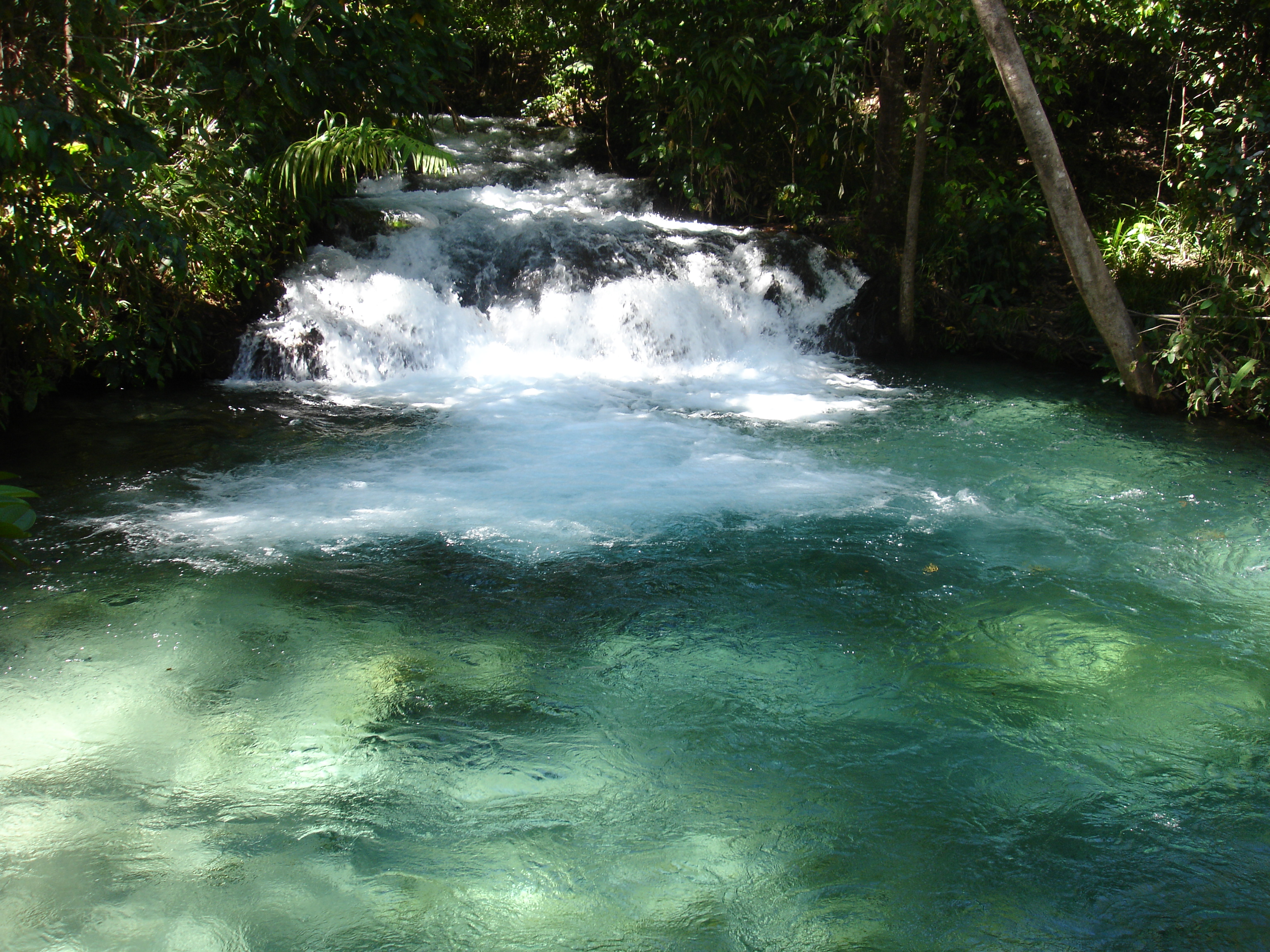 Formiga waterfall in Jalapão.